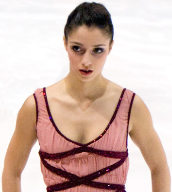 2010 Cup of Russia, free skating (Romeo and Juliet).